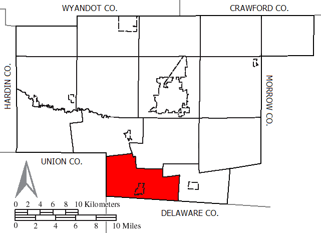 Made by the US Census and modified by myself to highlight the township